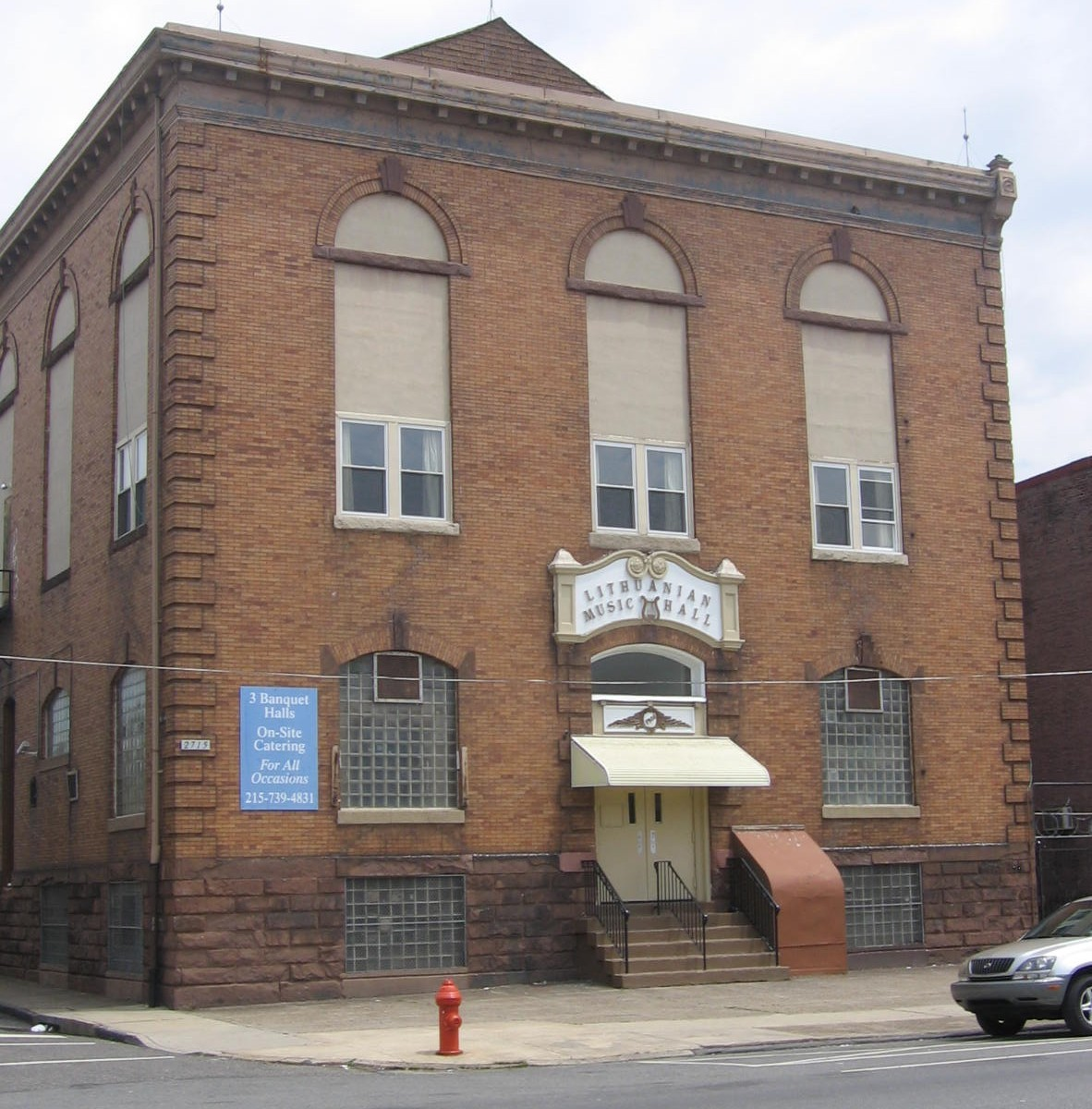 The Lithuanian Music Hall on Allegheny Avenue in Philadelphia, a few blocks west of the junction of Richmond Street and Allegheny Avenue. Note: original photo was modified by author prior to submission: original photo was slightly tilted and author rotated photo slightly a few degress to obtain building's actual perpendicular.